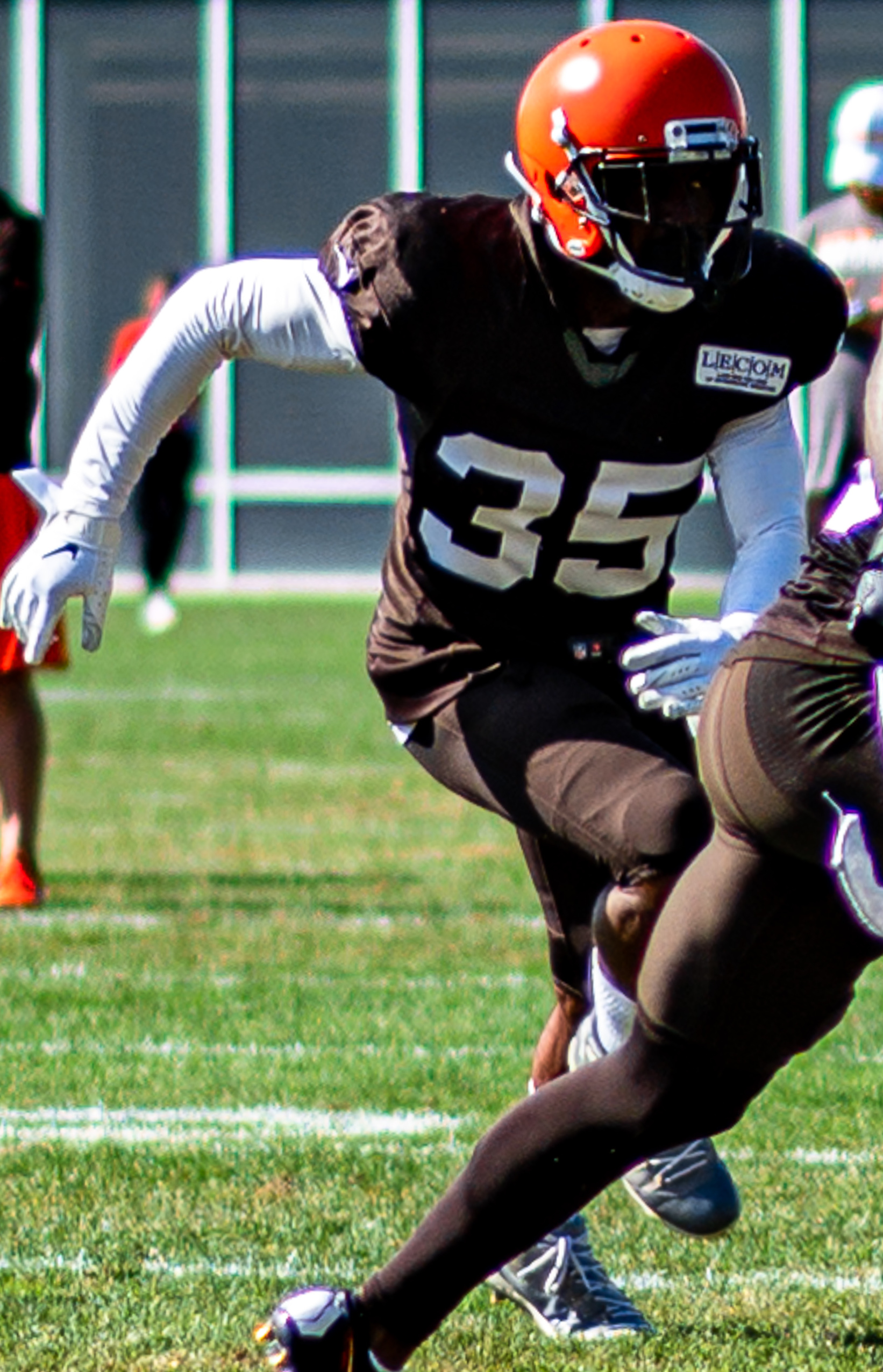 2019 Cleveland Browns Training Camp